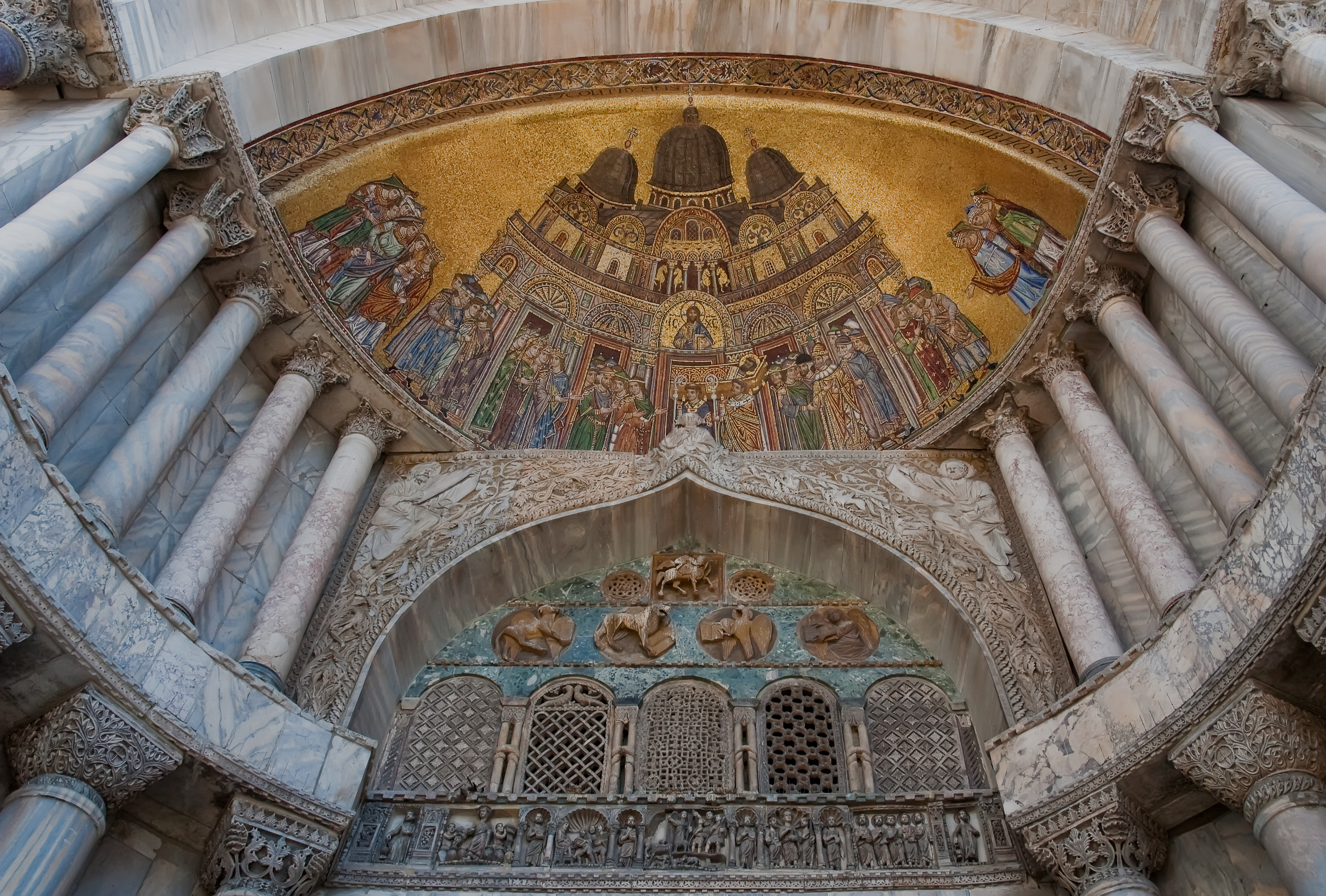 San Alipio facade door of Saint Mark's Basilica of Venice. Lunette. The translation of the body of Saint Mark to his basilica in Venice (XIIIth century).